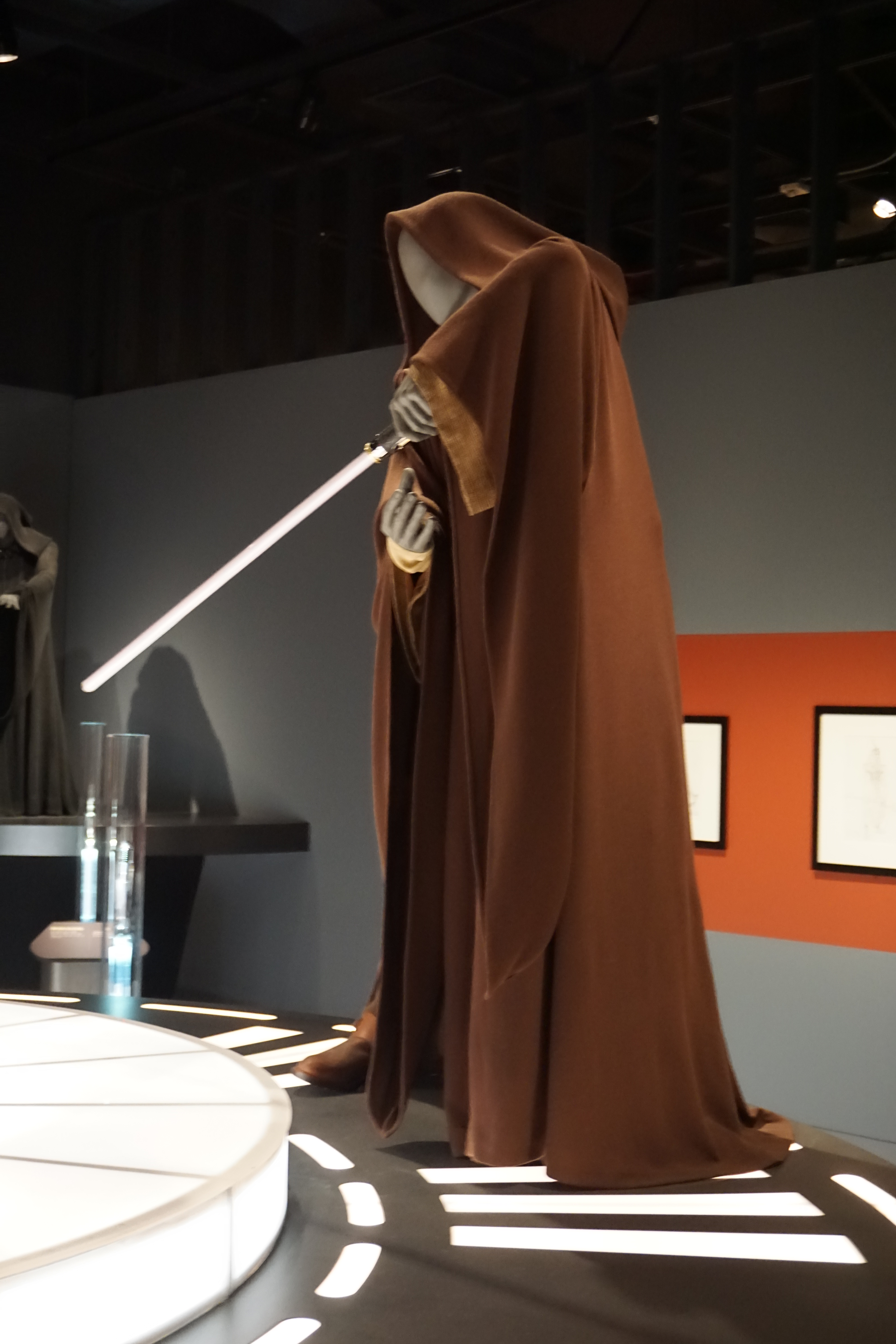 Mace Windu's Jedi robes from Star Wars: Episode III – Revenge of the Sith on display at the Star Wars and the Power of Costume traveling exhibit at the Detroit Institute of Arts in Detroit, Michigan (United States).